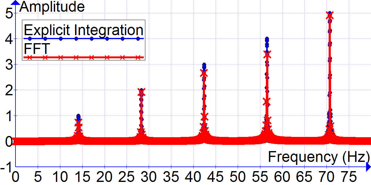 Discrete Fourier Transforms of five term cosine series. Frequencies are multiples of 10 times sqrt(2). Amplitudes are 1, 2, 3, 4, 5. FFT is computed with FFTW3 . Explicit Integration DFT computed with .